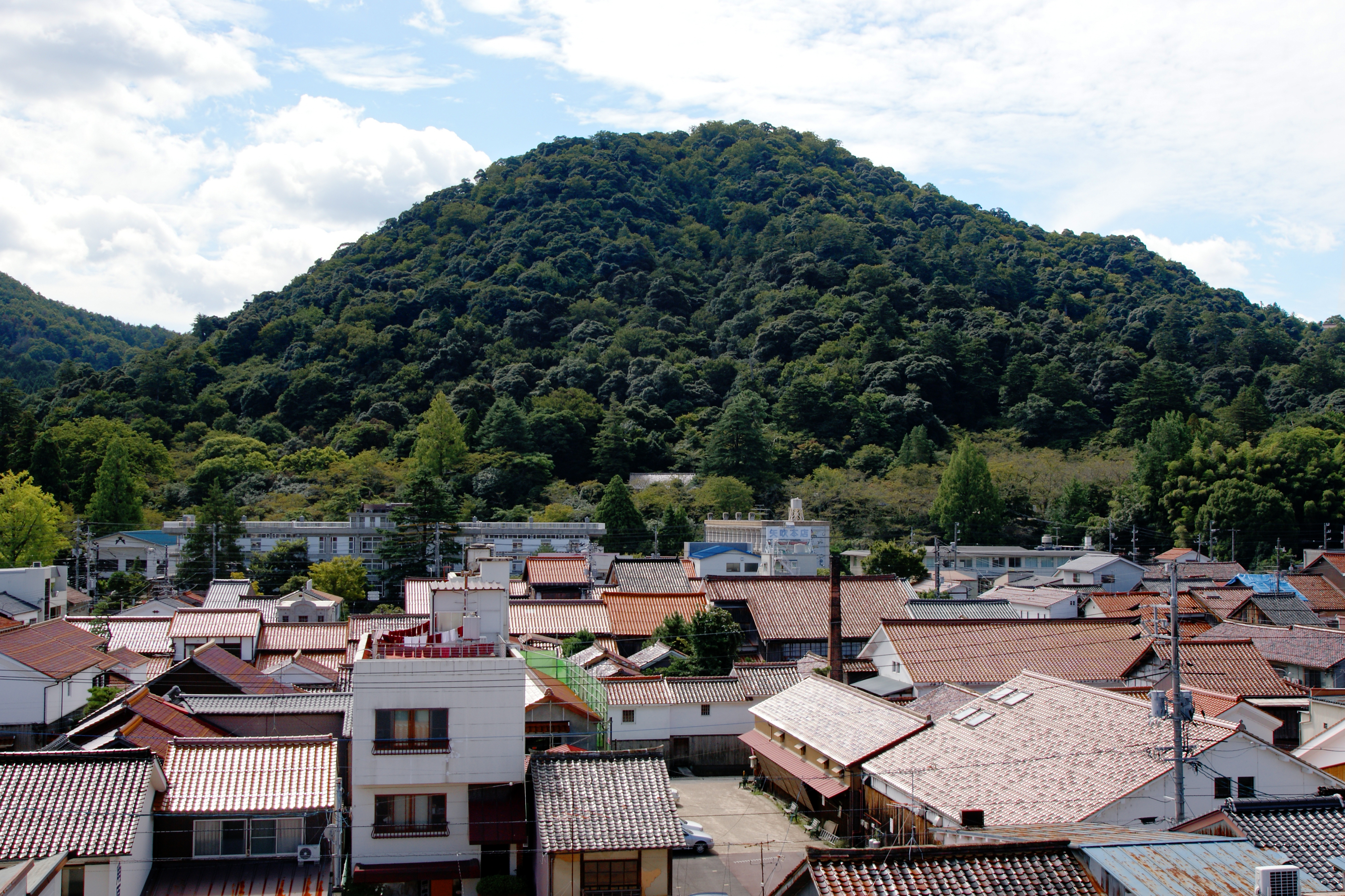 Mt. Utsubuki and Utsubuki-tamagawa in Kurayoshi, Tottori prefecture, Japan